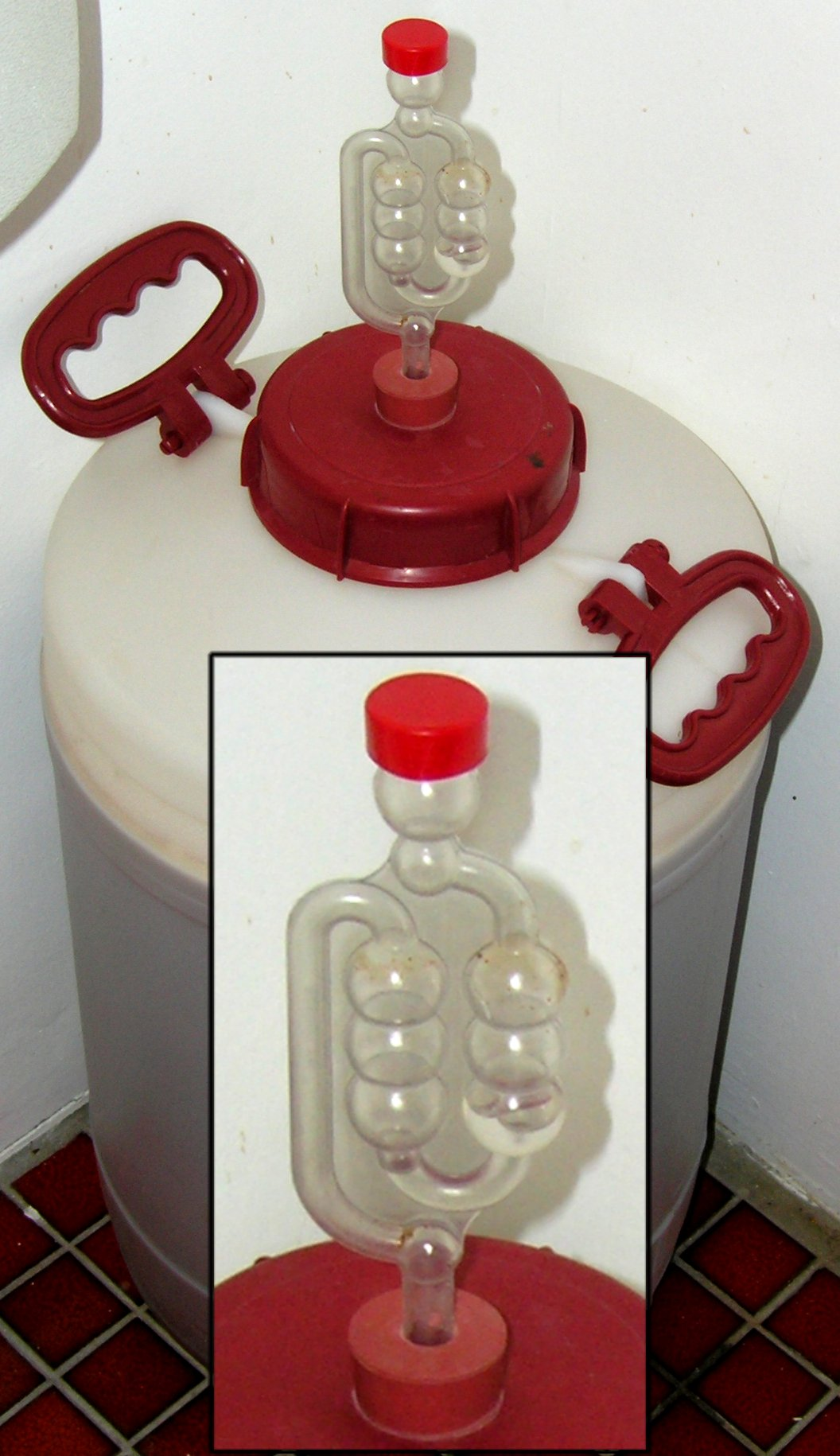 Homebrew airlock made of plastic on fermentation vessel made of plastic. Shermozle 15:55, 8 January 2006 (UTC)